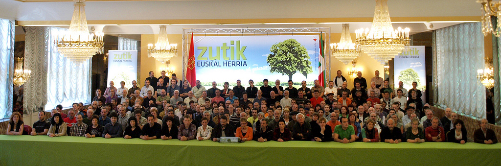 Public presentation of the Basque pro-independence left document after publishing "Stand-up Basque Country"